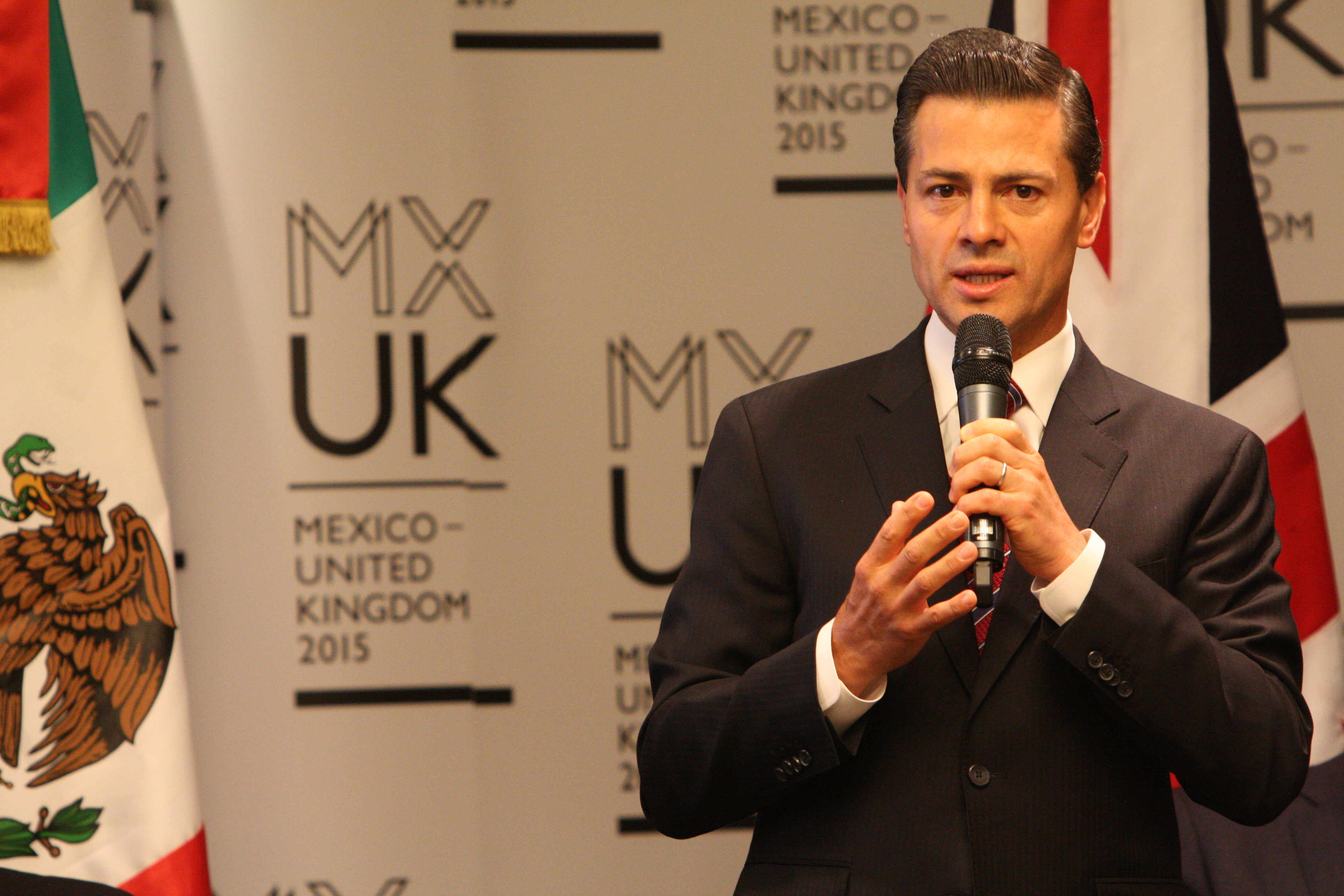 President of Mexico, Enrique Peña Nieto speaking at a Signing Ceremony of Agreements on Higher Education and Tourism in London, 2 March 2015.